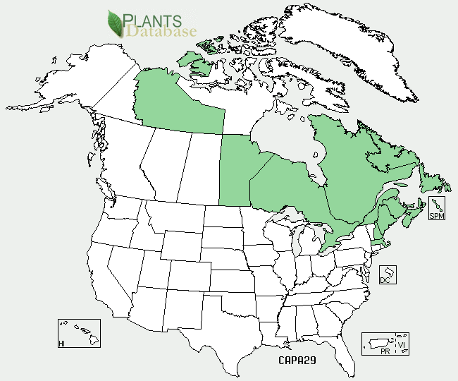 North American distribution for carex palacea